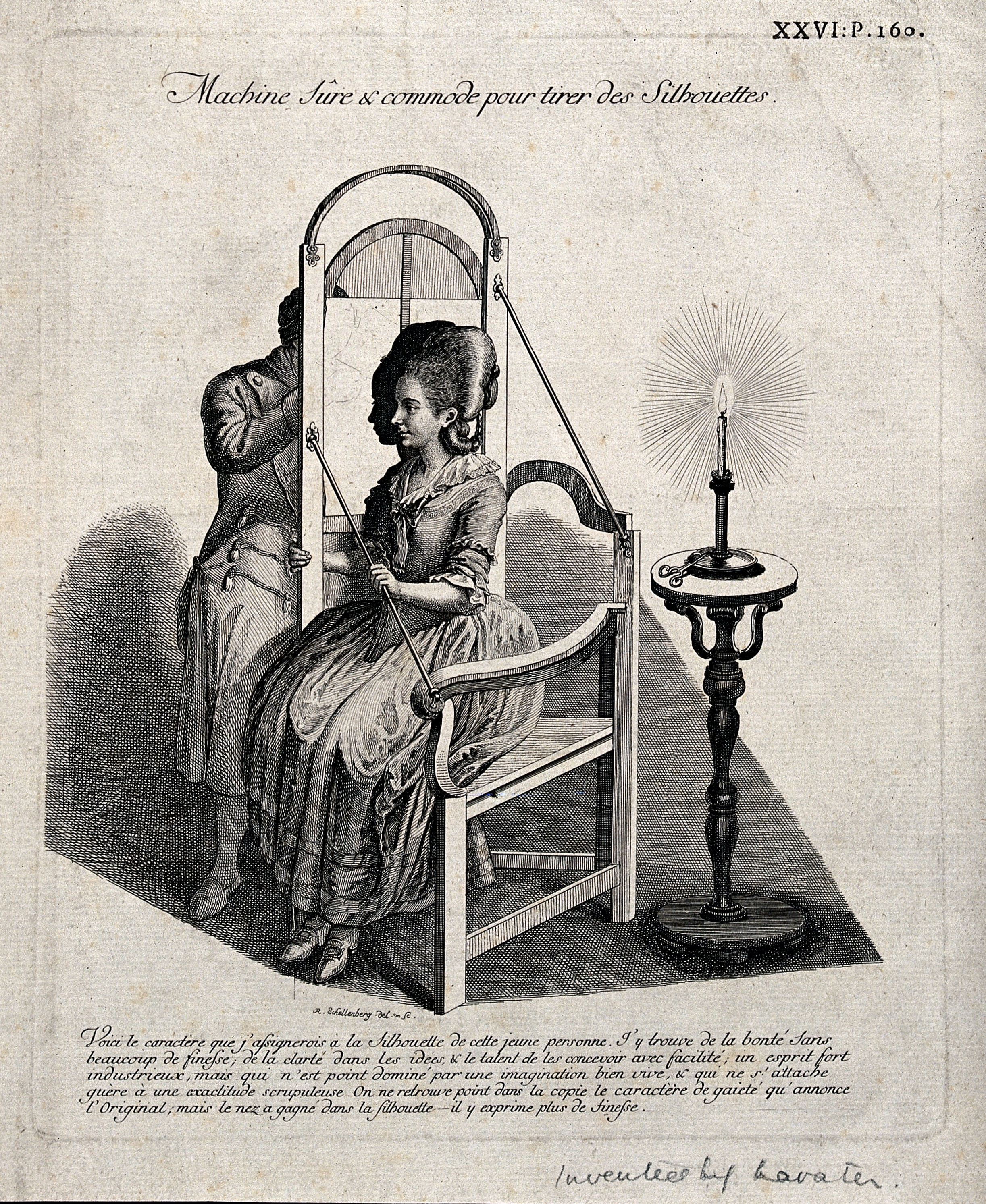 A man drawing the silhouette of a seated woman on translucent paper suspended in a frame and lit by a candle. Etching by R. Schellenberg. Iconographic Collections Keywords: Johann Rudolph Schellenberg